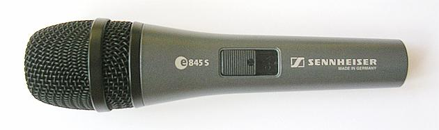 Dynamic microphone, Sennheiser. Copy of image:Dynamic-microphone-senn.jpg, rotated and corrected